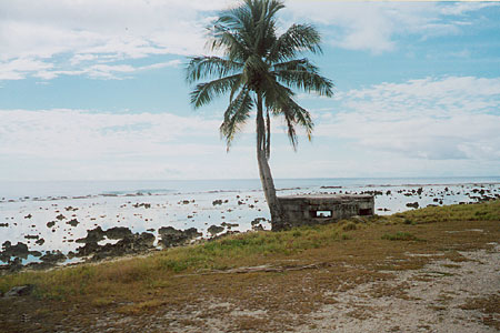 Photo of a japanese pillboxe in Nauru island